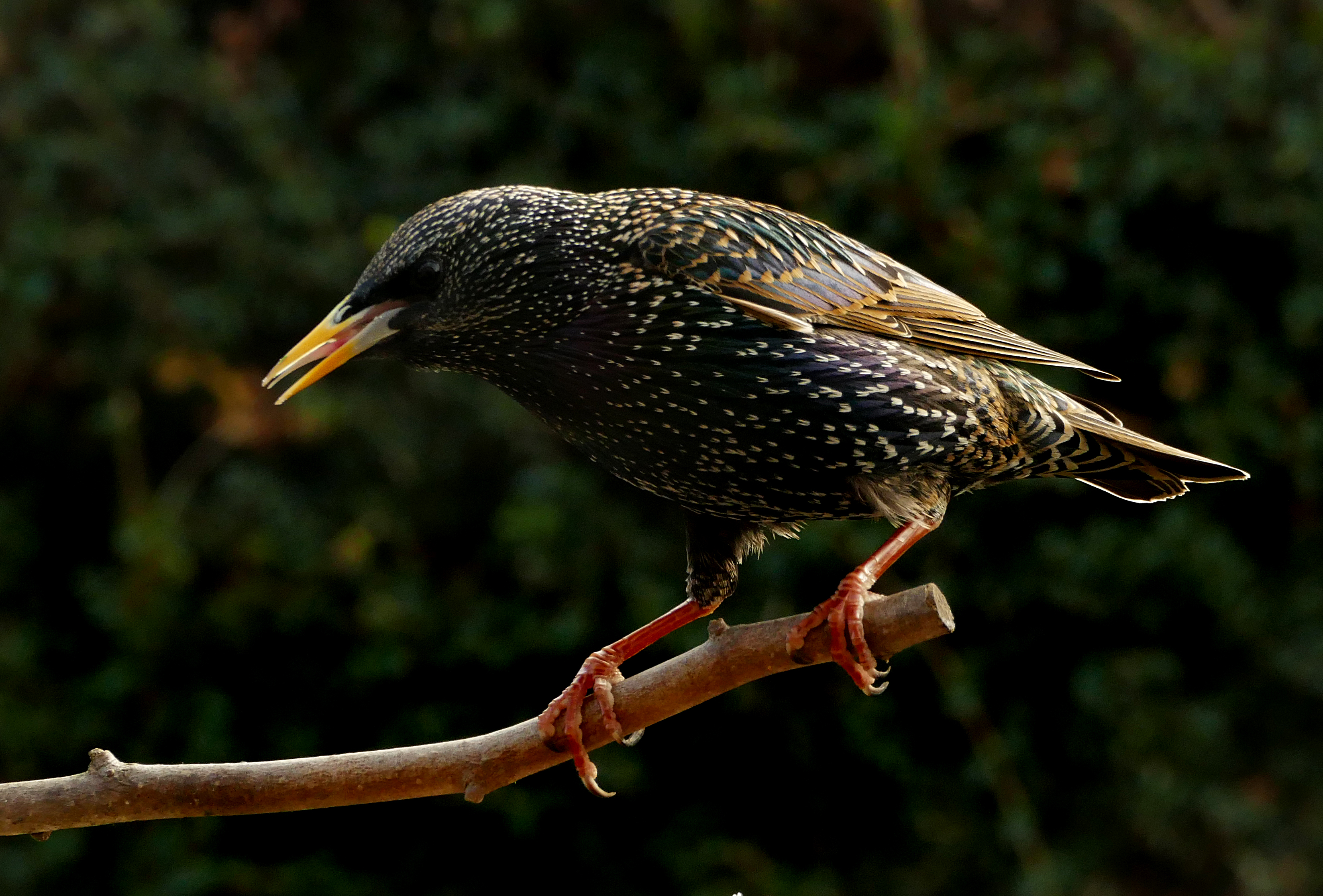 The Starling was introduced to New Zealand between the 1860’s and 80’s. It was brought in for practical reasons rather than sentimental reasons, as it was judged to be a bird well-suited to a drastically changed New Zealand environment. With the arrival of Europeans, much of the previous native forest was clear-felled to make way for pasture and cropping land, which was then hard hit with plagues of insects. The only way to deal with this problem was thought to be to introduce species that would help eradicate this plague. This species of Starling was originally native to most parts of temperate Europe and south-western Asia, and was also introduced to Australia and Fiji for similar reasons, where it has also successfully established itself. As a result of the introduction to this part of the world, it has also been able to migrate to Thailand, Southeast Asia, and New Guinea. In fact, the Starling’s ability to adapt to a large variety of habitats has allowed a greater dispersal and meant they have become established all around the world. Here in New Zealand they range from coastal wetlands to alpine forest habitat, and are widespread and common.